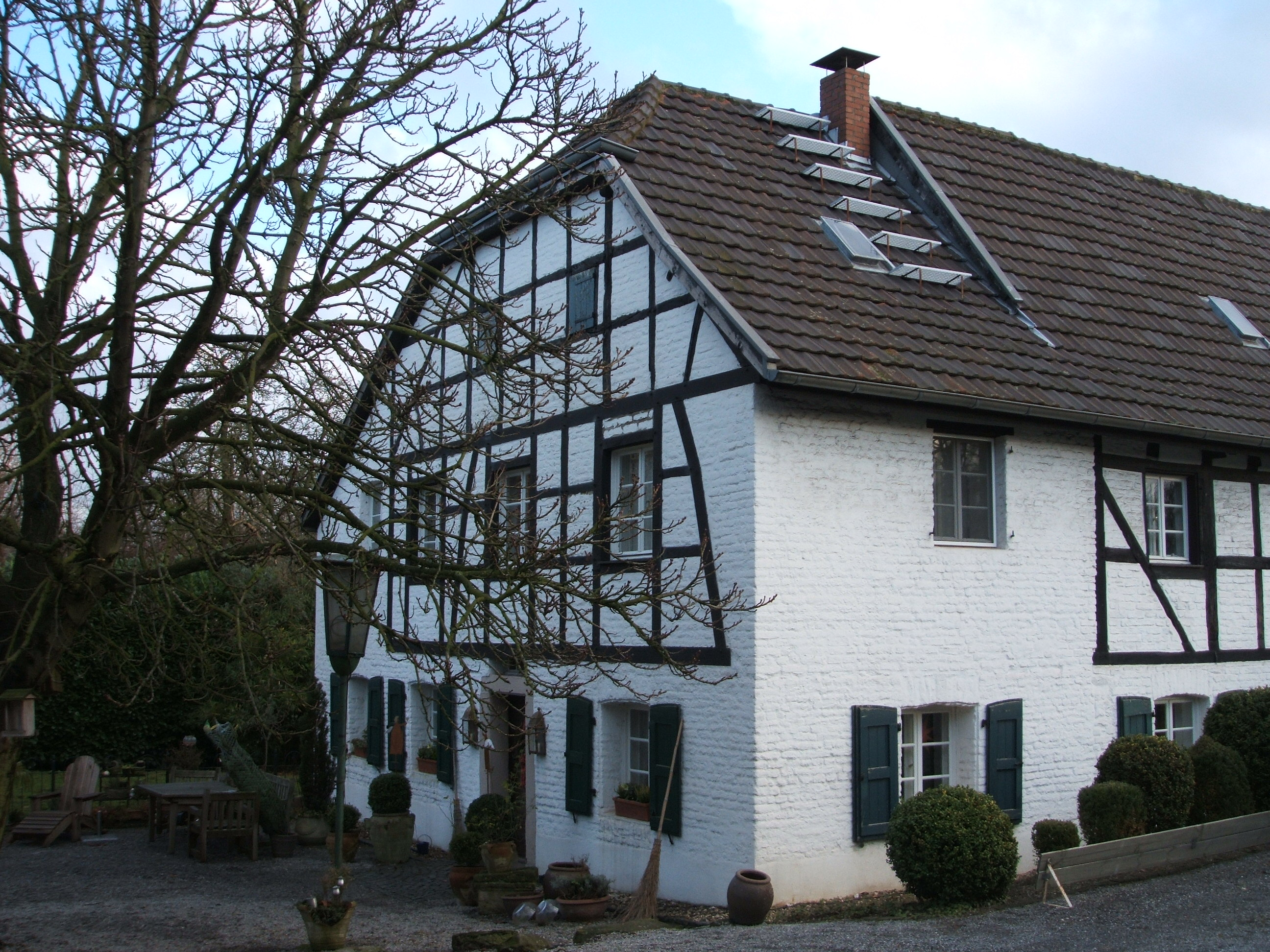 Picture of historical building "Sandmuehle" in Duisburg-Huckingen (South-West-view)